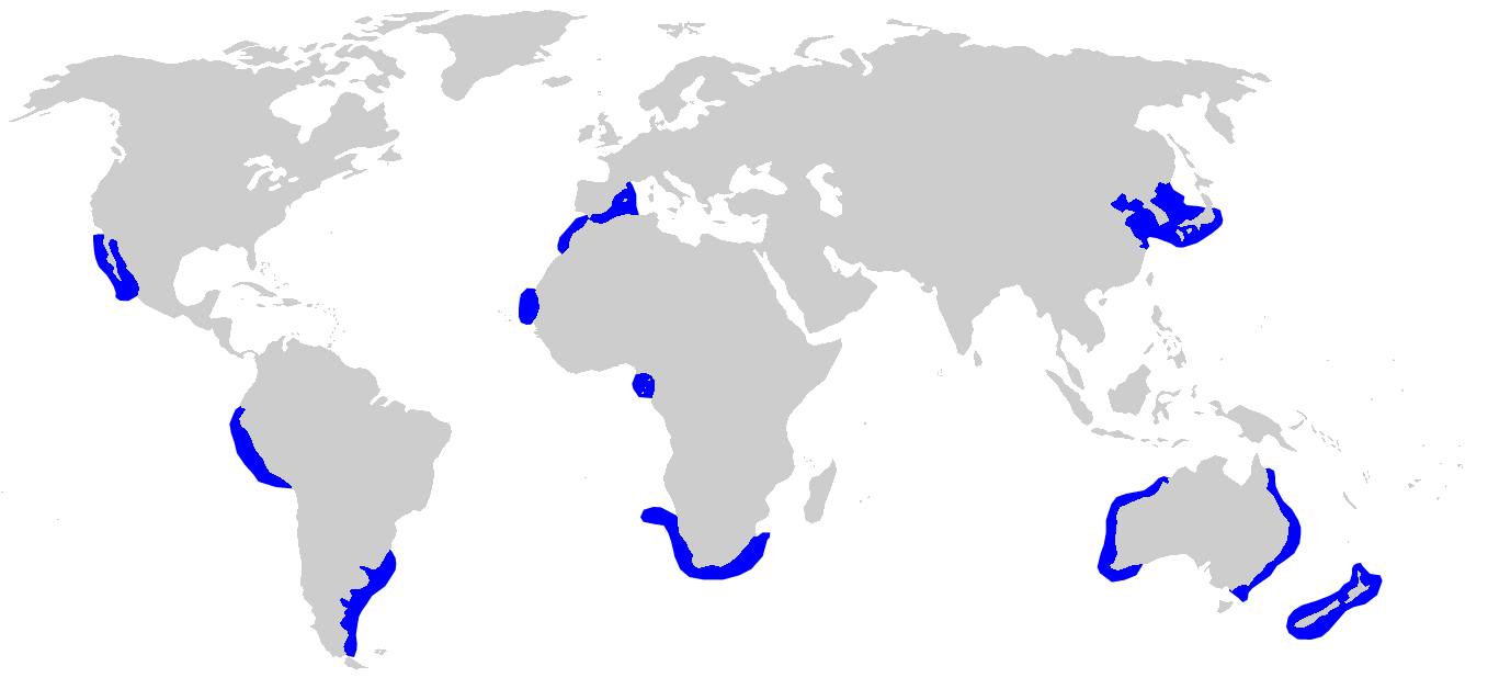 Distribution map for Carcharhinus brachyurus